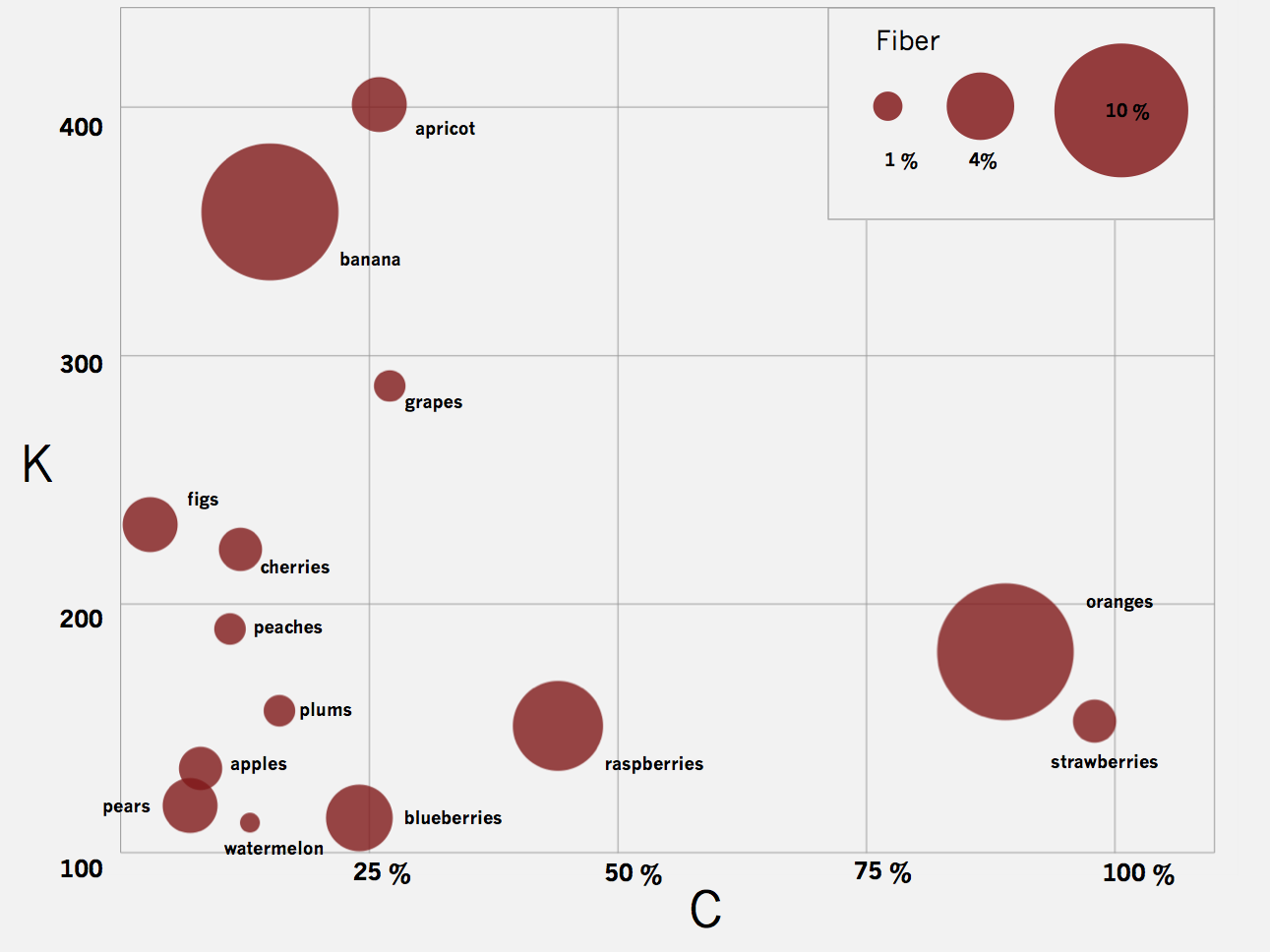 Vitamins and minerals per piece of fruit. LEGEND DATA FROM THE TRANSCLUSION ON EN.WIKI IN THE ARTICLE fruit: Each point refers to a 100 g serving of the fresh fruit, the daily recommended allowance of vitamin C is on the X axis and mg of Potassium (K) on the Y (offset by 100 mg which every fruit has) and the size of the disk represents amount of fiber (key in upper right). Oranges and bananas have the highest amount of fiber and are also furthest away from the bottom left indicating their superior nutrition. Watermelon which has almost no fiber and low levels of vitamin C and potassium comes in last place.